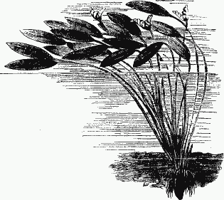 Aponogeton distachyon drawing